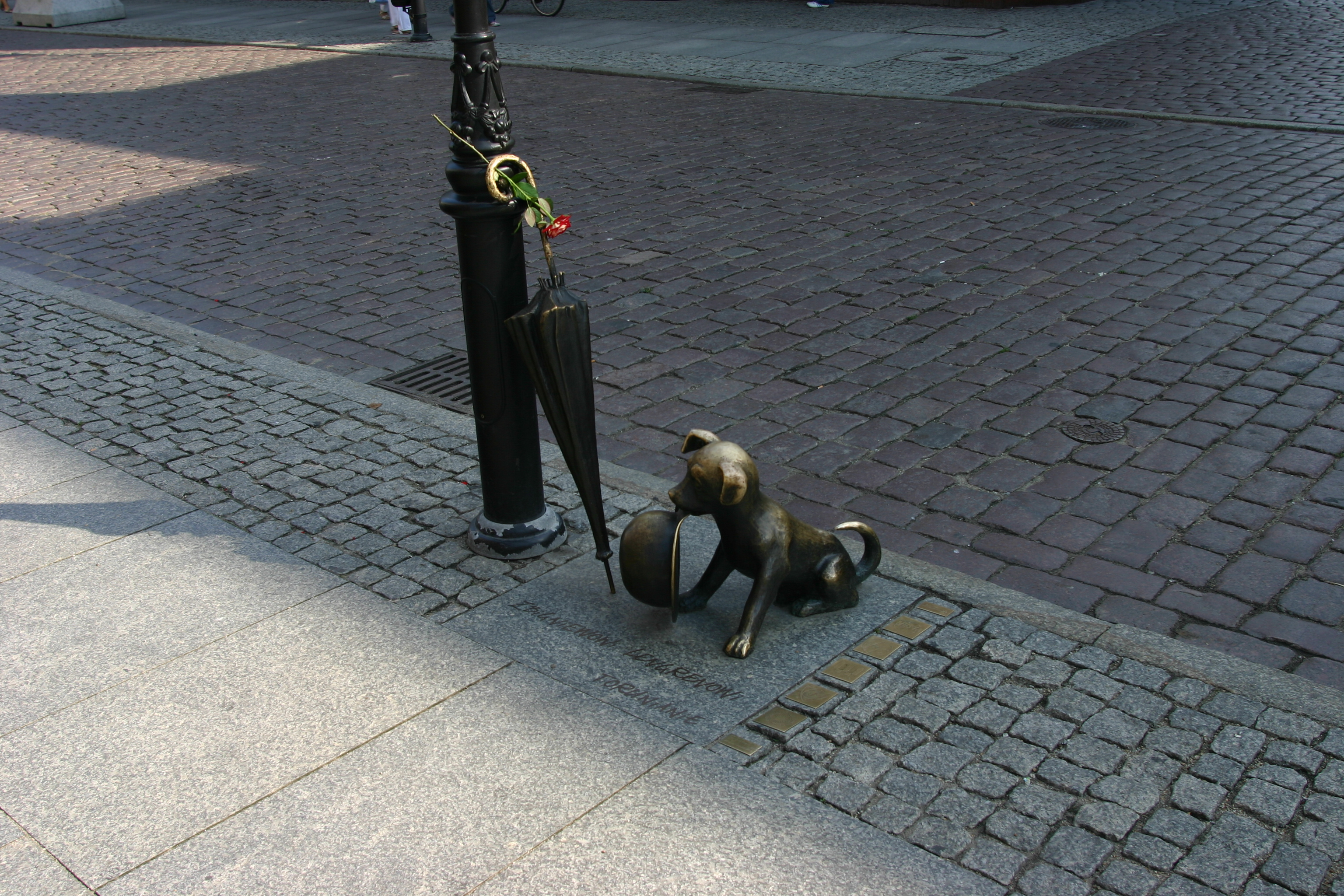 A dog named Fafik, a tribute to a famous polish cartoonist Zbigniew Lengren, in Toruń